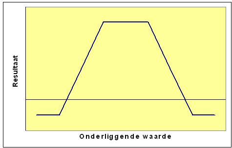 Condor construction, options, derivatives